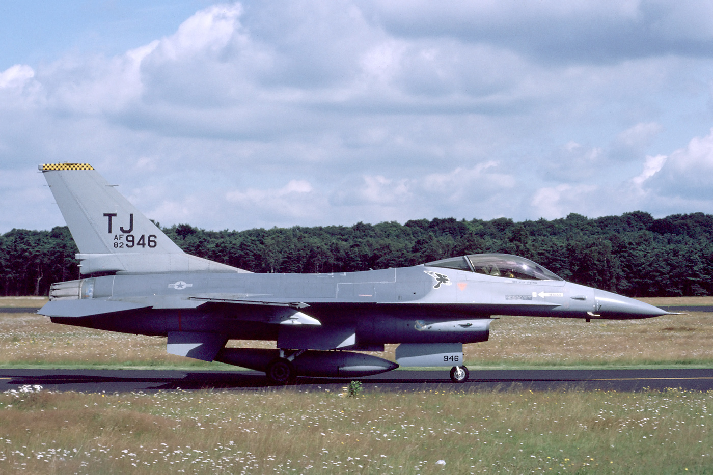 Seen at Soesterberg in August 1984 was this F-16A of 613rd TFS from Torrejon, Spain. 82-0946 is now stored at AMARC. It arrived here in December 2006 after serving with the Arizona ANG at nearby Tuscon IAP.